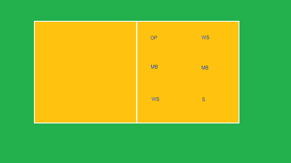 rotation of volleyball